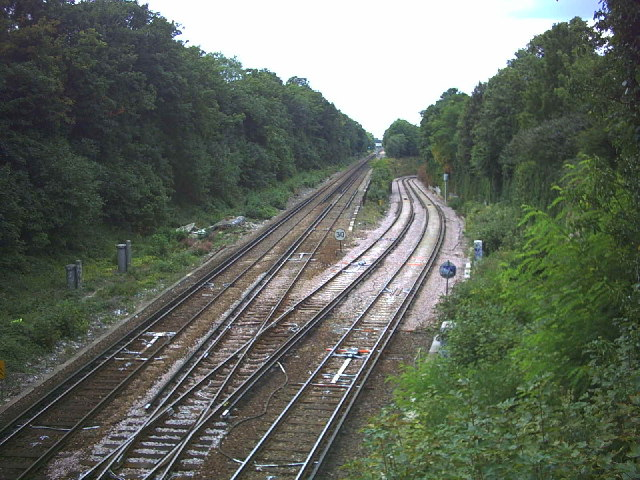 Rail Junction west of Sutton Station.